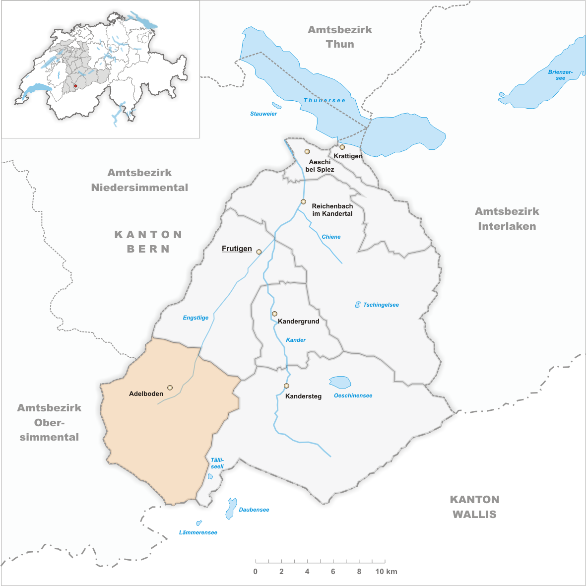 Municipality Adelboden